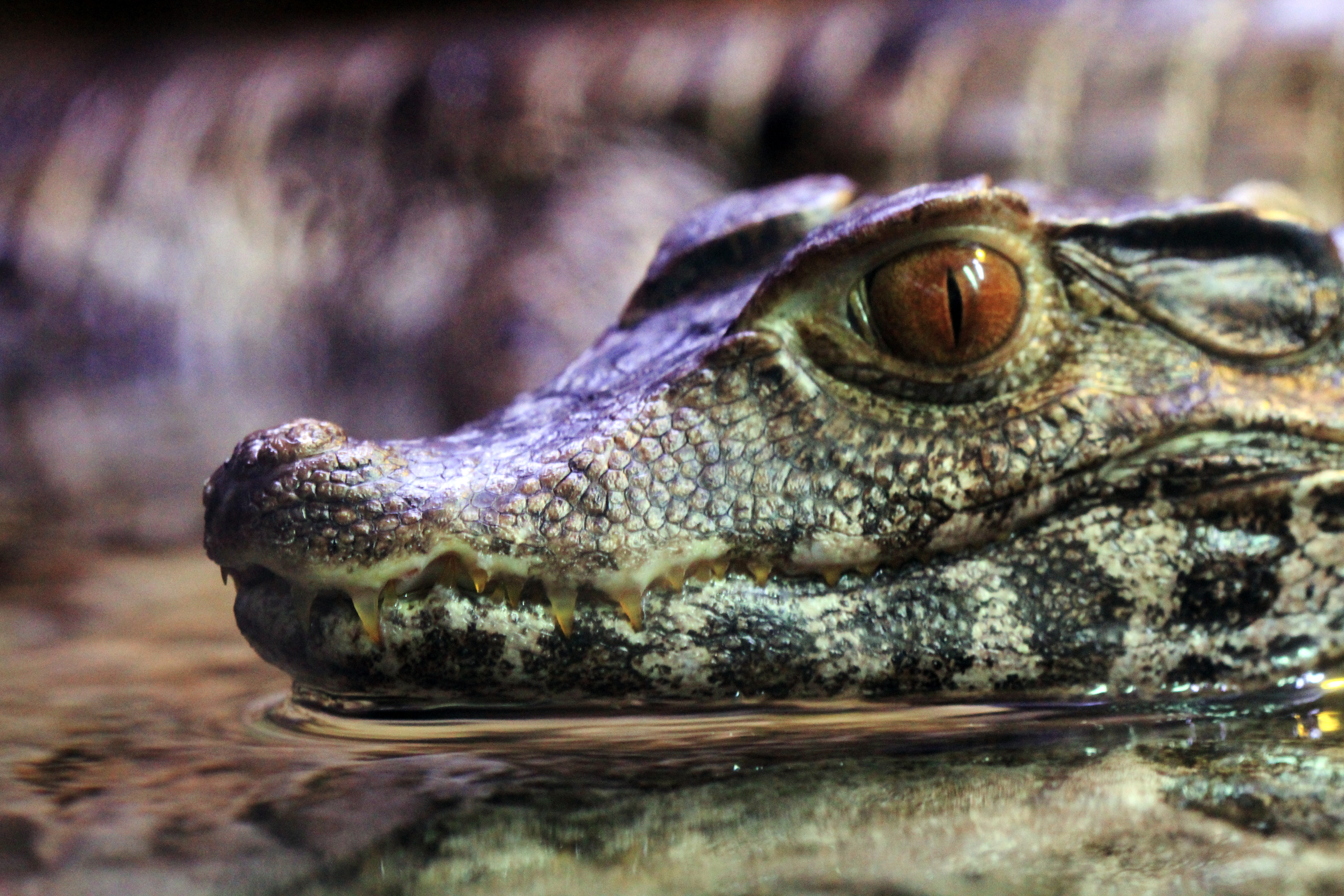 Cuvier's dwarf caiman, (Paleosuchus palpebrosus) in Prague sea aquarium “Sea world”, Czech Republic